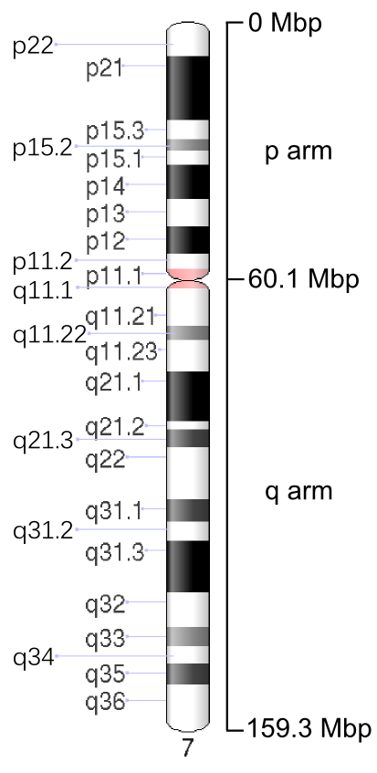 Ideogram of human chromosome 7. G-band, 550 bphs (bands per haploid set). Black and gray: Giemsa positive. Red: Centromere. Light blue: Variable region. Dark blue: Stalk. Mbp: Mega base pairs.